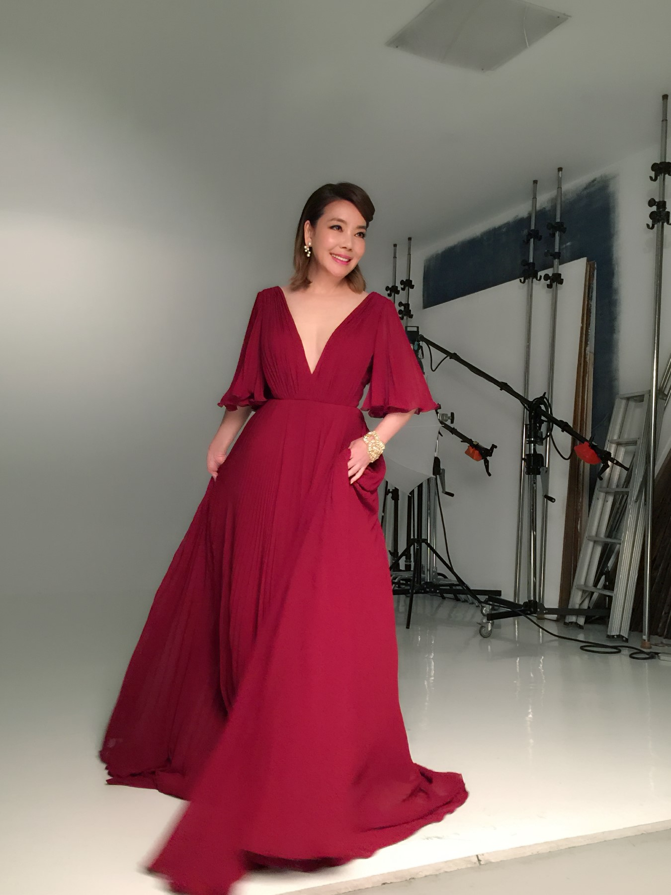 studio picture of Winnie Hsin shooting for her album